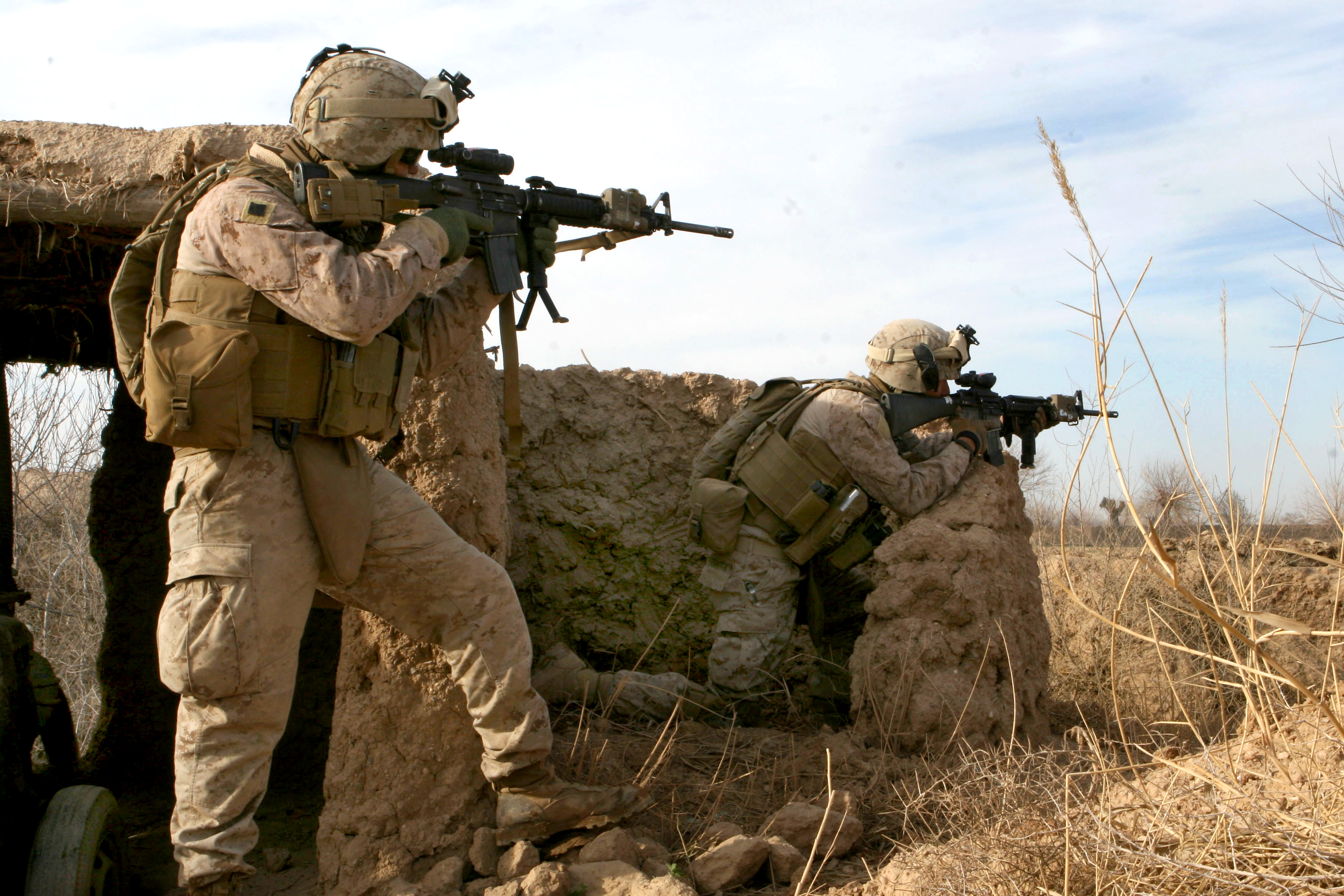 U.S. Marines take cover behind a mud wall after receving fire in the city of Marja in Helmand province, Afghanistan, Feb. 13, 2010. The Marines, assigned to Bravo Company, 1st Battalion, 6th Marine Regiment, arrived in the city at night by helicopters as part of a large-scale offensive aimed at routing the Taliban from their last-known stronghold.